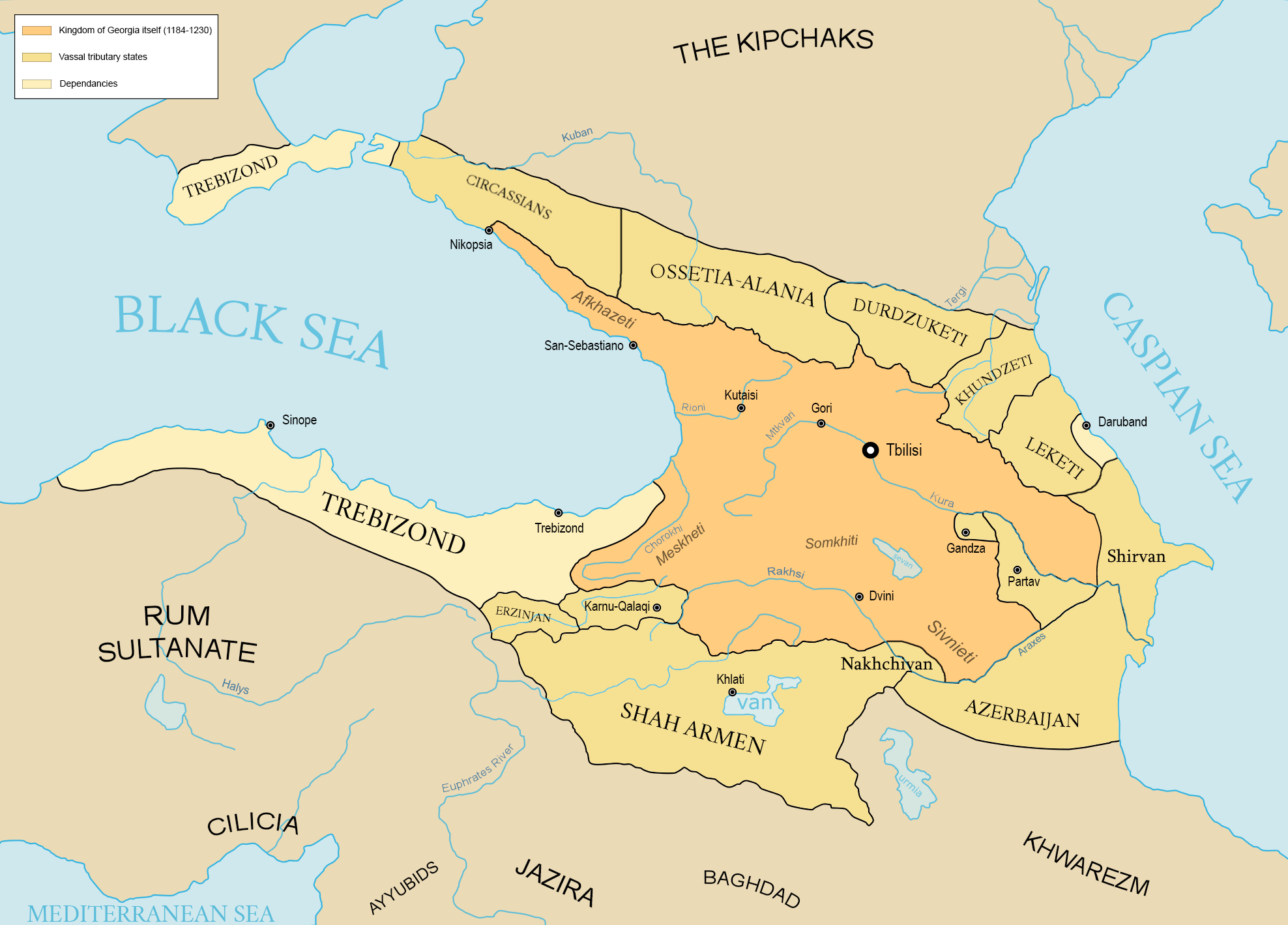 Queen Tamar's Georgia's map mainly drawn after Levan Asatiani's map (Georgia at the peak of her might 1150-1220) from საქართველო – 1150-1220 წწ.